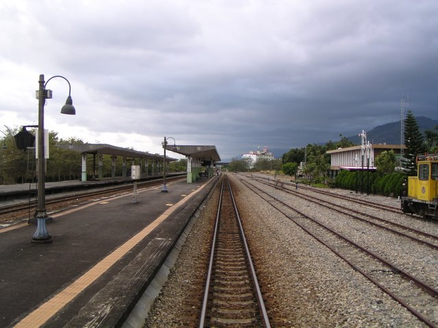 Taiwan Railway Administration Jhihben Station